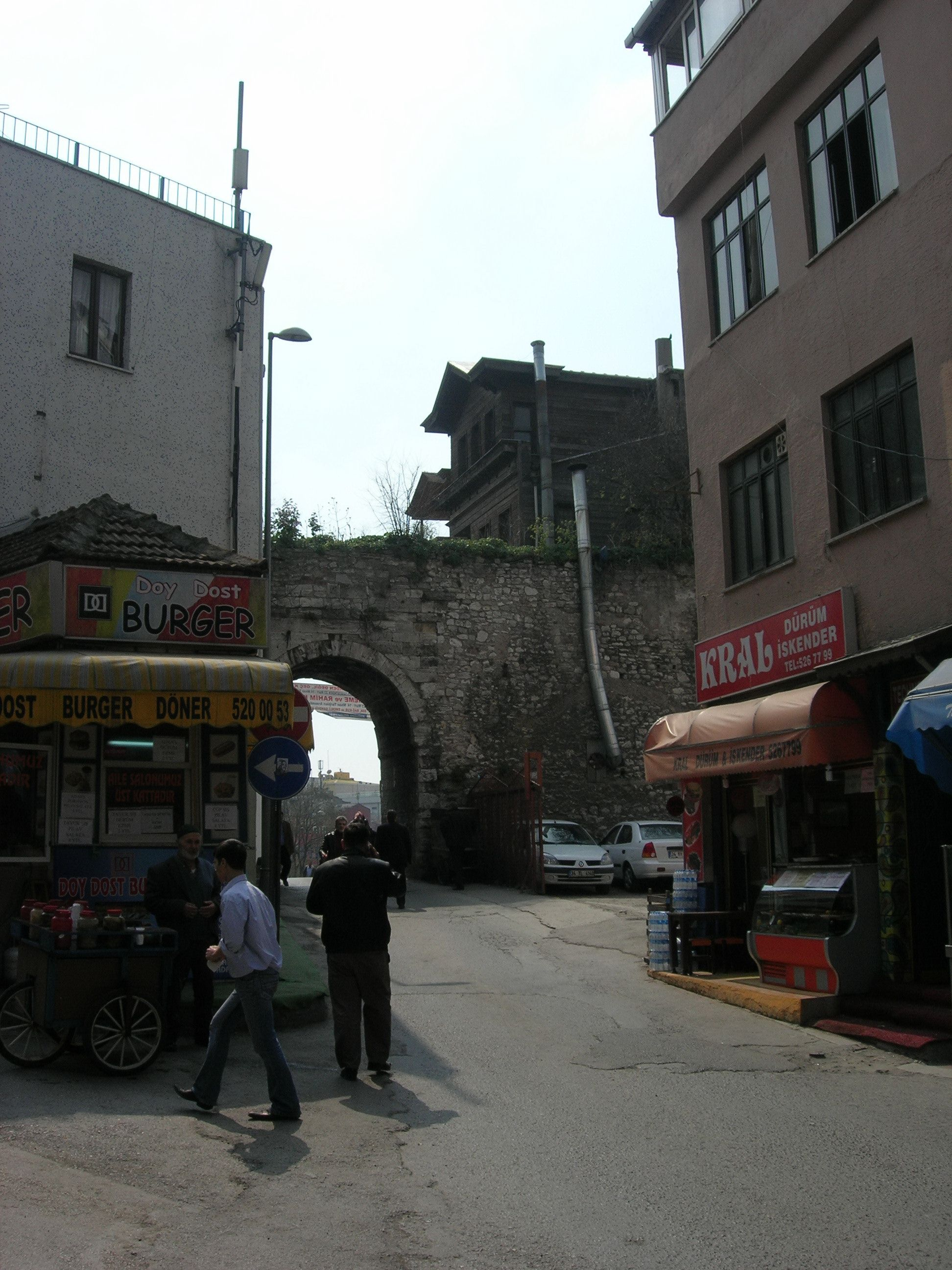 an Arch of the Aqueduct of Valens in Istanbul in Vefa seen from north